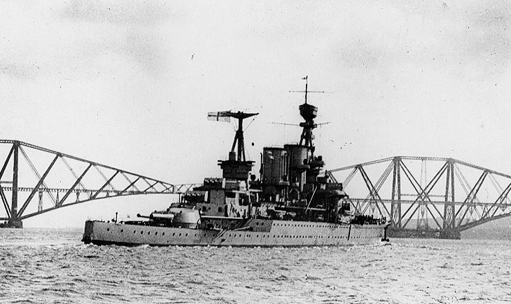 In the Firth of Forth, Scotland, circa 1916-17, with the Forth Bridge in the background.